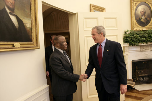 Meeting with the leaders from Mozambique, Botswana, Niger, Ghana and Namibia, President George W. Bush welcomes President Festus Mogae of Botswana to the Oval Office Monday, June 13, 2005.